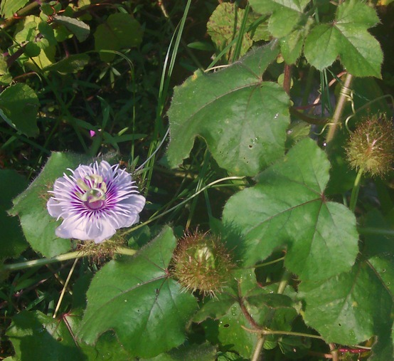 Wild Passiflora foetida on sandy beach, Palabuan Ratu, West Java, Indonesia.